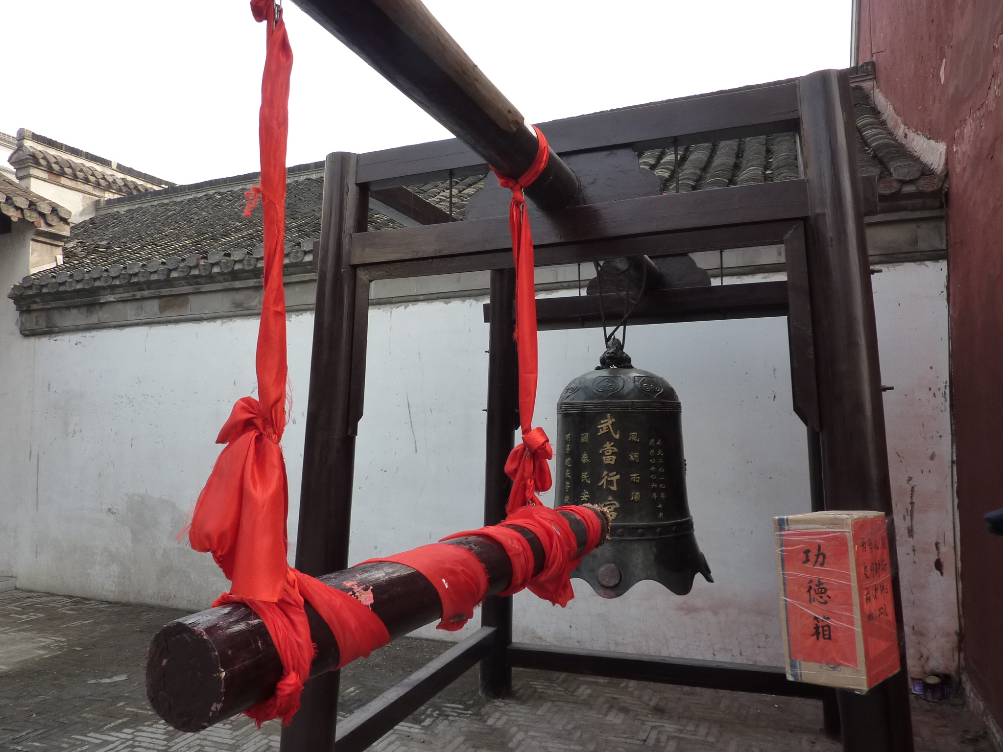 The bells in the front yard of Yangzhou's Wudang Palace.